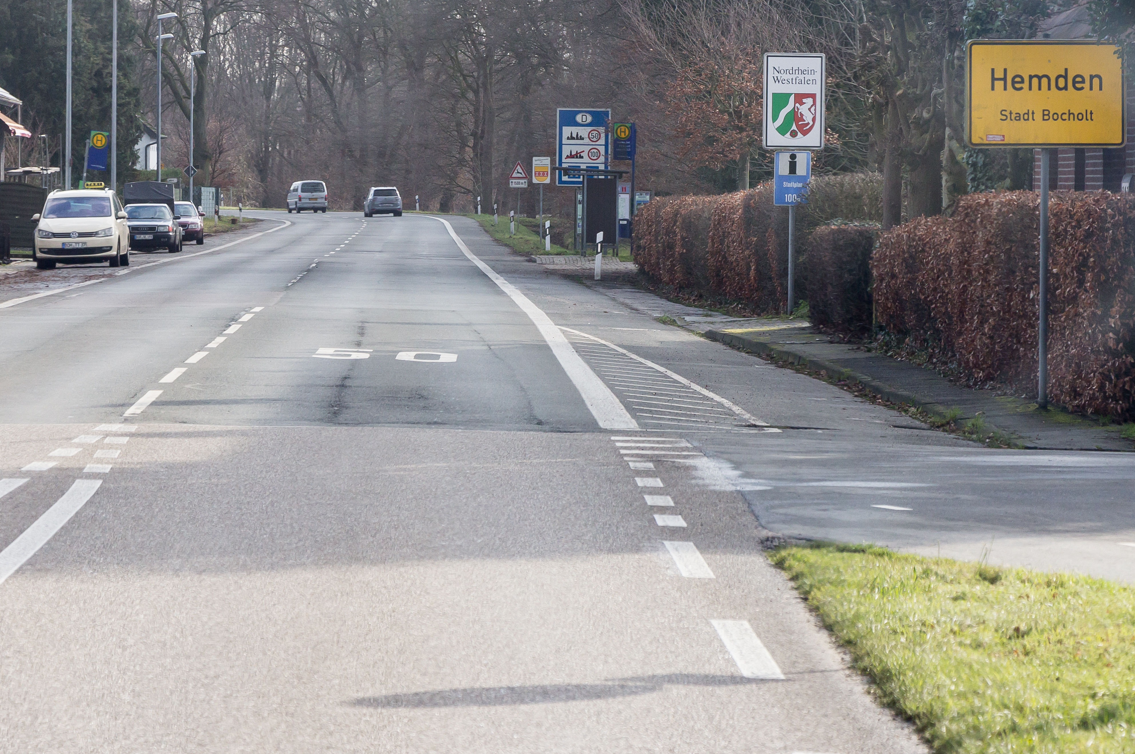 Dutch-German border N313-L602 Heurne-Hemden